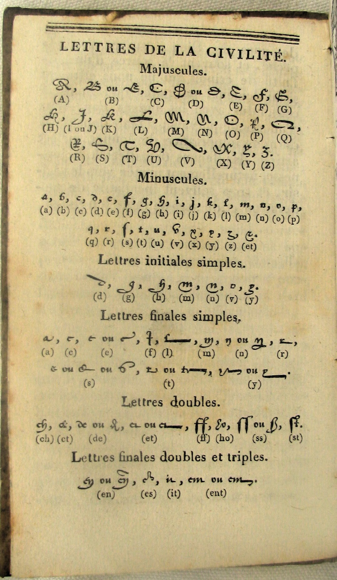 Civilité Specimen in an 1820 civics book